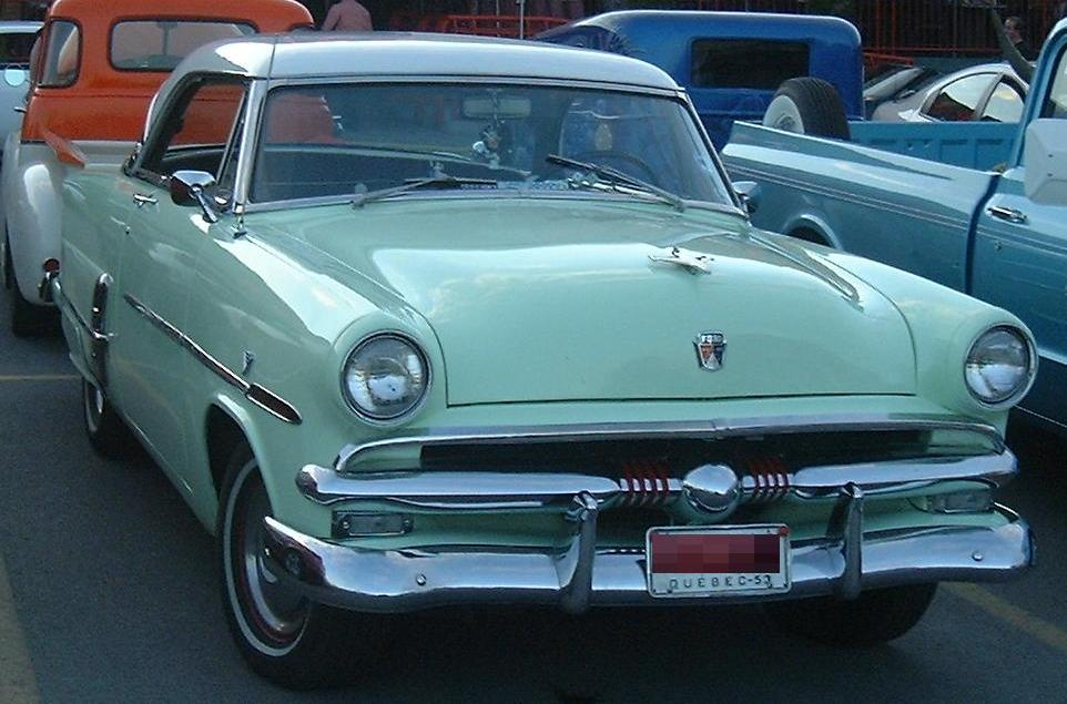 1953 Ford photographed in Repentigny, Quebec, Canada at Auto classique Le Skratch Repentigny.